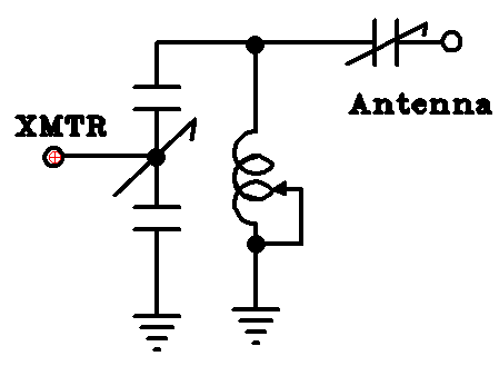 Schematic diagram of the so called "Ultimate Transmatch"